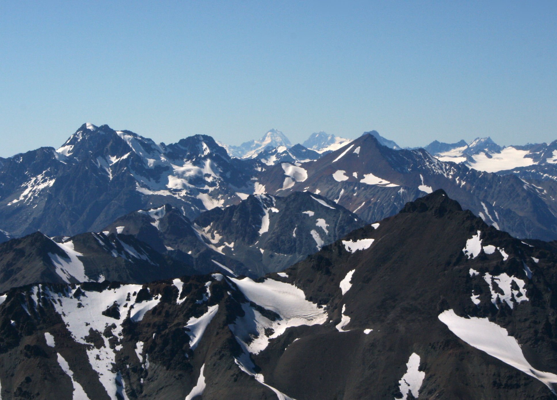 60 meters taller than Mount Robson, standing at 4019 meters, Mount Waddington is the 3rd tallest mountain in British Columbia, after Mount Fairweather and Quincy Adams peaks on the Alaskan border. The mountain also has the second highest prominence in BC, at 3289 meters. Standing at the head of the Bute and Knight Inlets, the mountain is surrounded by such rugged, remote terrain that it is rare to even be able to see the peak.Mount Waddington